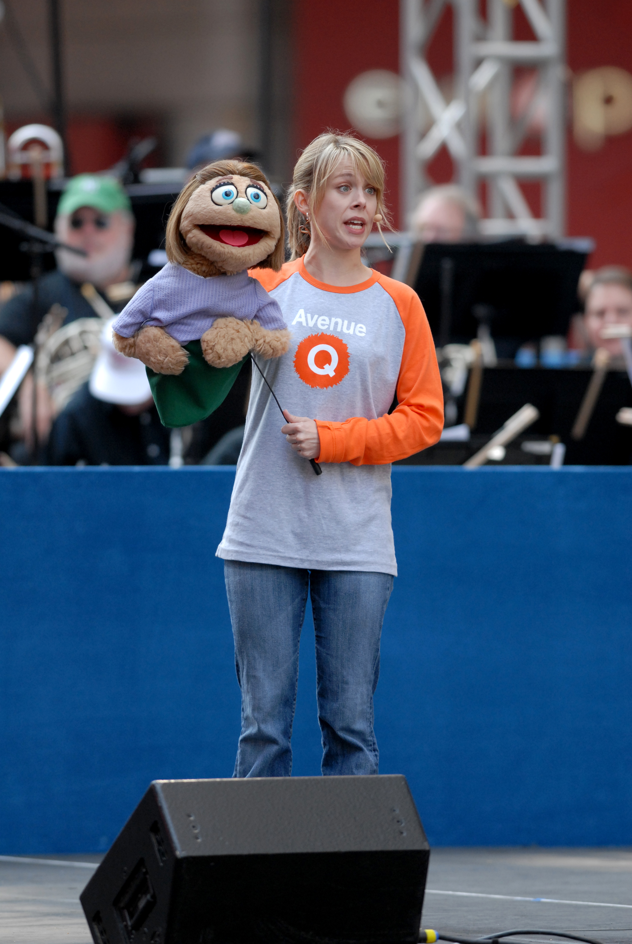 The cast of Avenue Q performs "It Sucks to Be Me" at Broadway on Broadway, September 10th 2006.